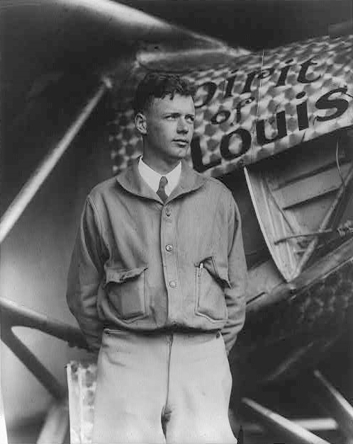 Charles Lindbergh, with Spirit of St. Louis in background